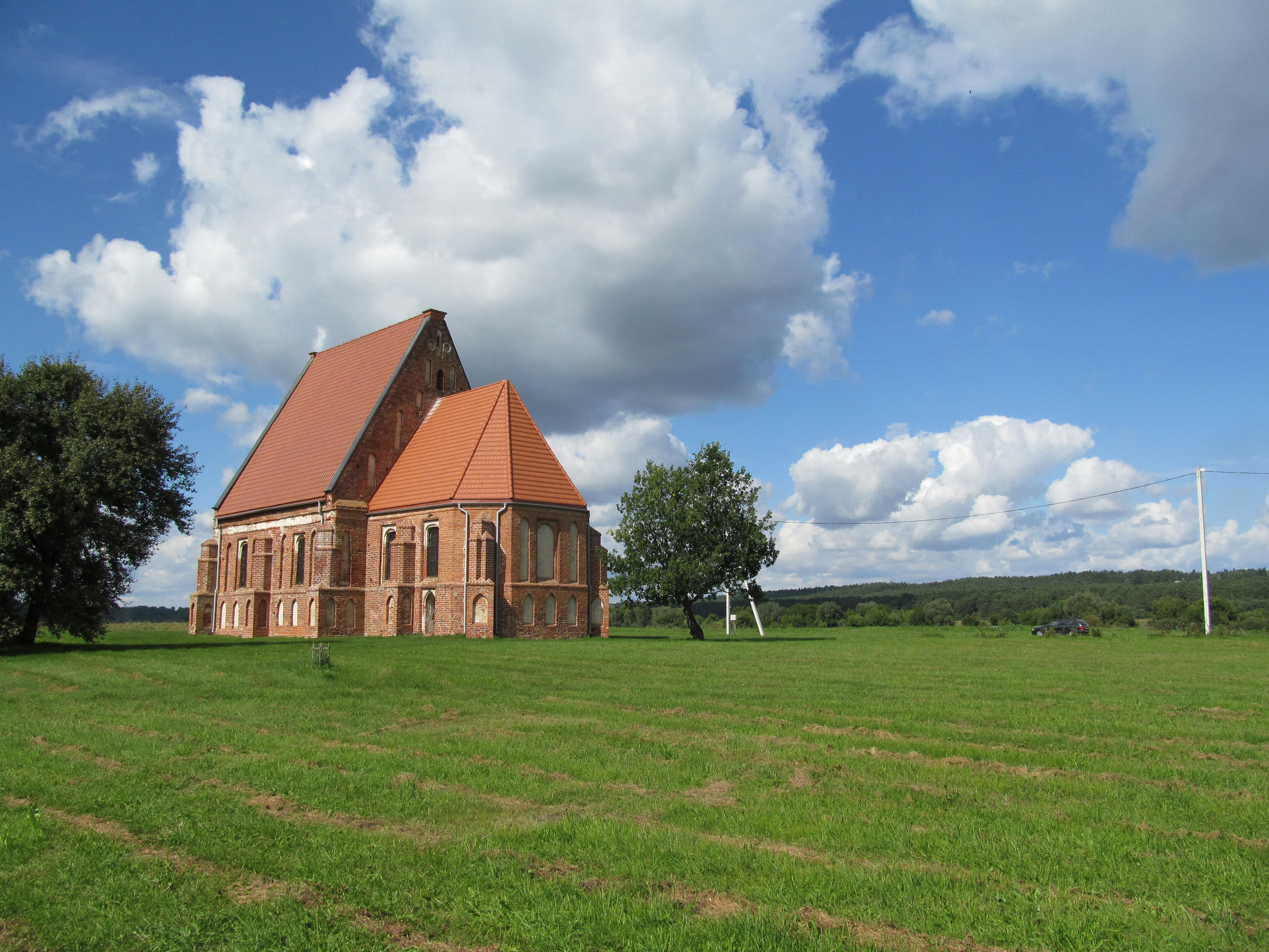 Zapyškis church, Lithuania. View from south-east in distance.